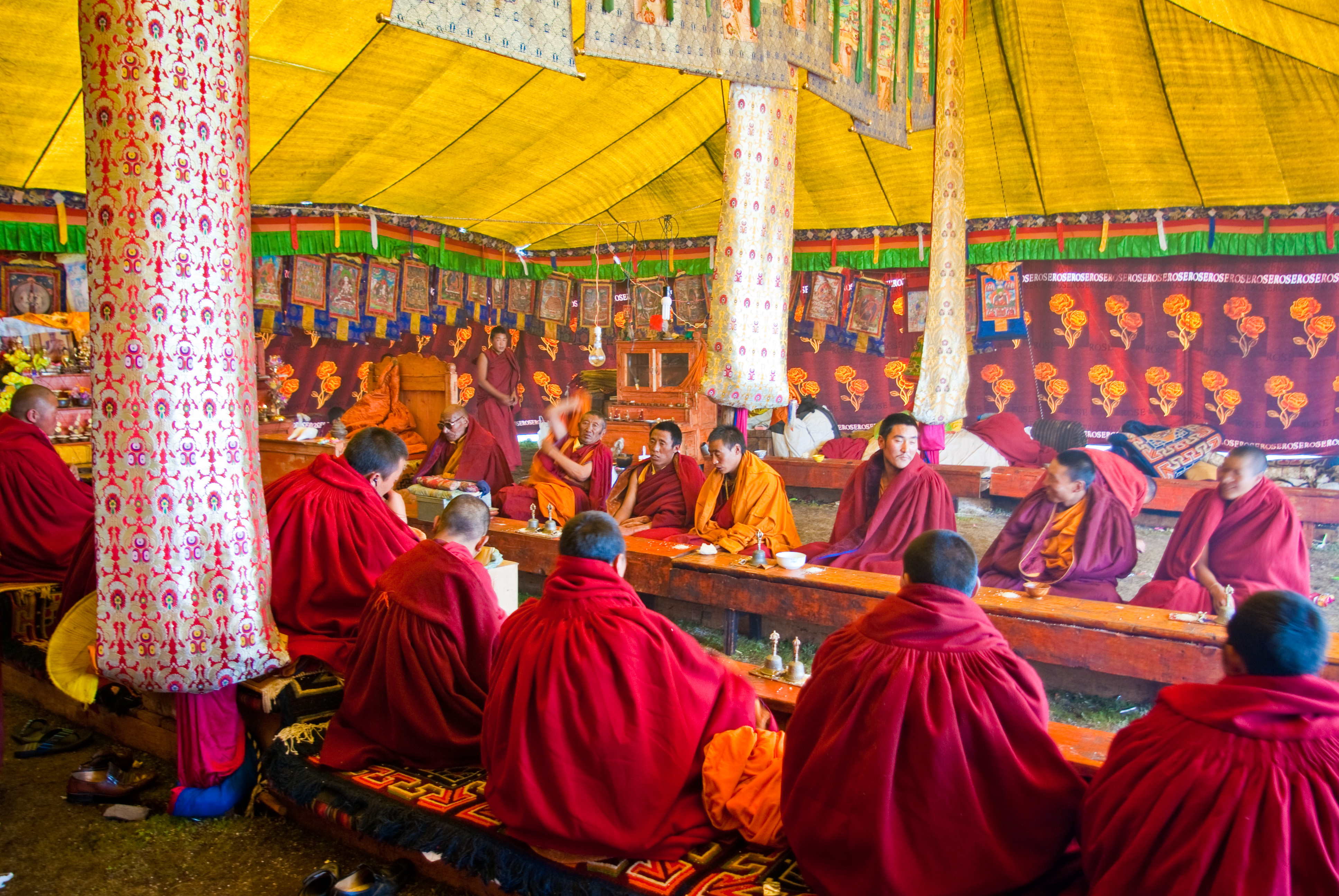 A nomad camp of the Litang Monastery — Sichuan Province, southwestern China.